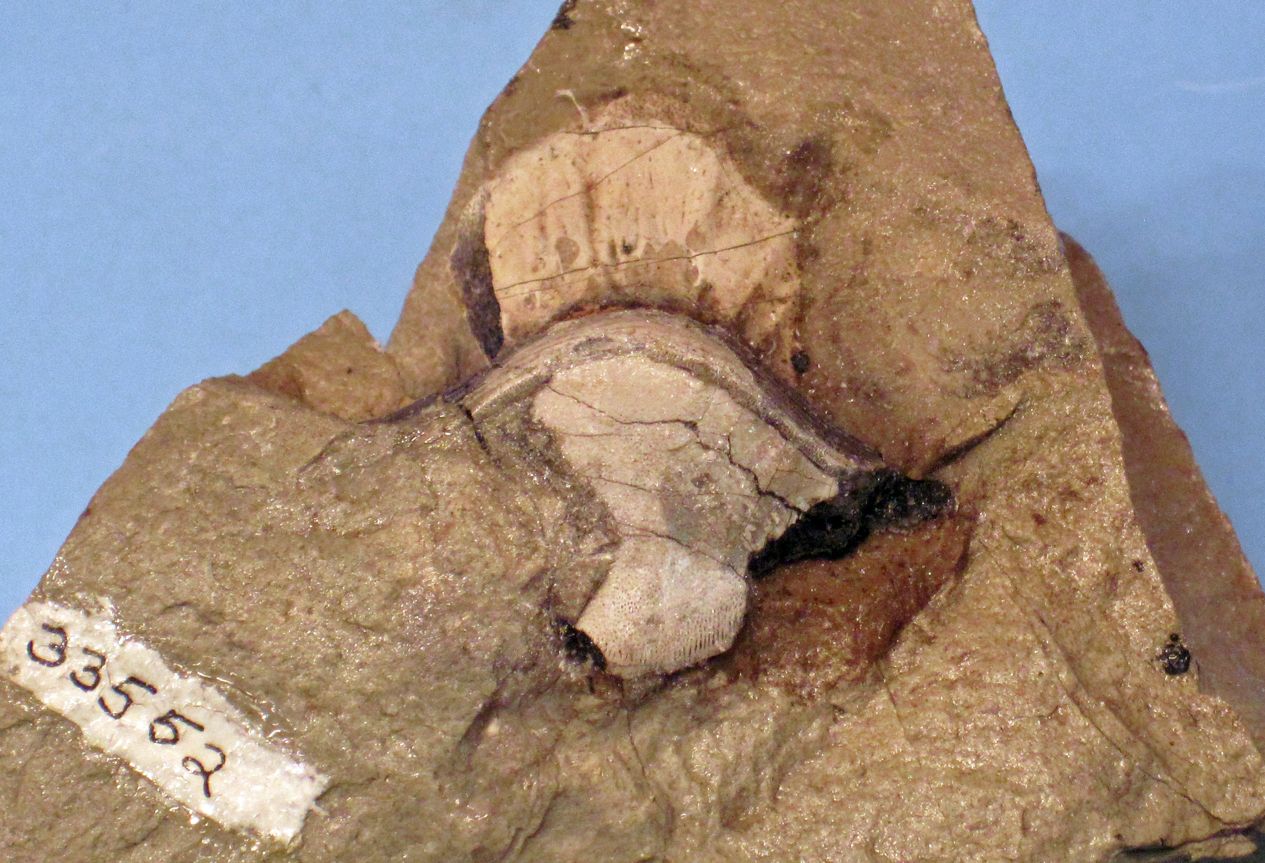 Petalodus ohioensis Safford, 1853 - fossil shark tooth from the Pennsylvanian of Athens County, Ohio, USA. (OSU 33552, Orton Geology Museum, Ohio State University, Columbus, Ohio, USA) This fossil fish tooth is phosphatic - it's composed of apatite (calcium phosphate). It comes from Petalodus ohioensis, a Late Paleozoic shark. The tooth morphology of Petalodus indicates it was a shell crushing shark. Petalodus likely fed principally on calcareous shelled invertebrates such as brachiopods and bivalves. Classification: Animalia, Chordata, Vertebrata, Chondrichthyes, Petalodontiformes, Petalodontidae See info. on a Nebraska occurrence at